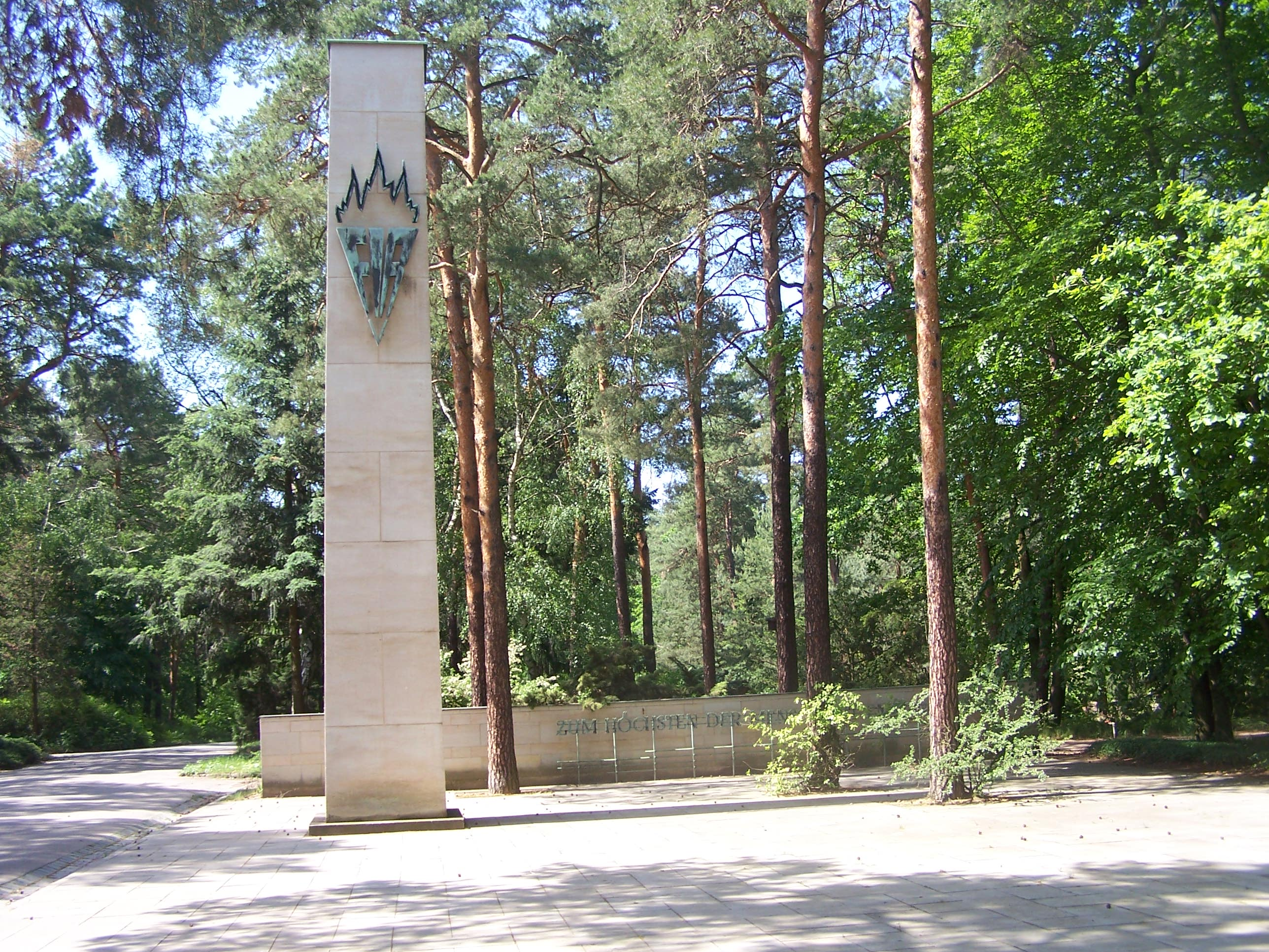 Obelisk of the “Féderation Internationale de Résistants” at the cemetery Heidefriedhof in Dresden.